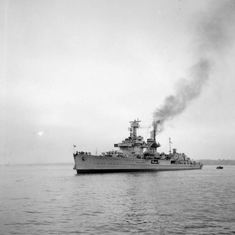 The former German light cruiser Nürnberg at Kiel after being ceded to the Soviet Union under the terms of the Potsdam Conference. The light cruiser Nürnberg, launched in 1934, was renamed Admiral Makarov when in USSR service.